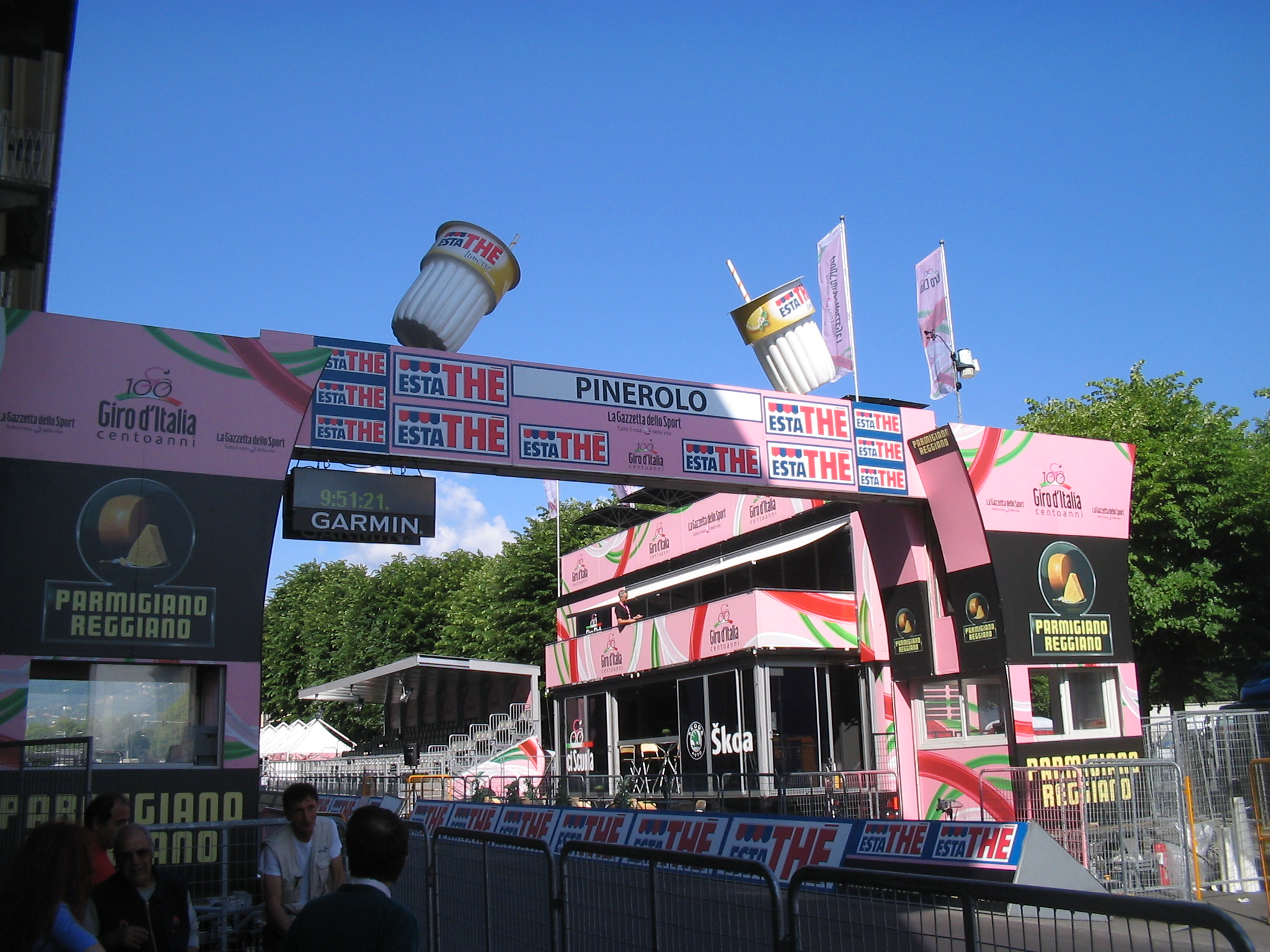 The finish line of the 10^ stage of Giro d'Italia in Corso Torino